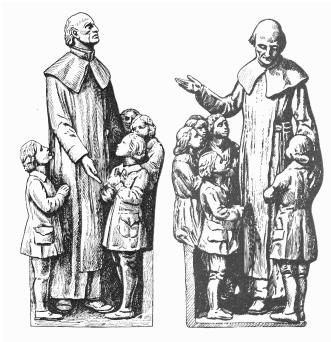 Photo of Cavani's priest brothers of people